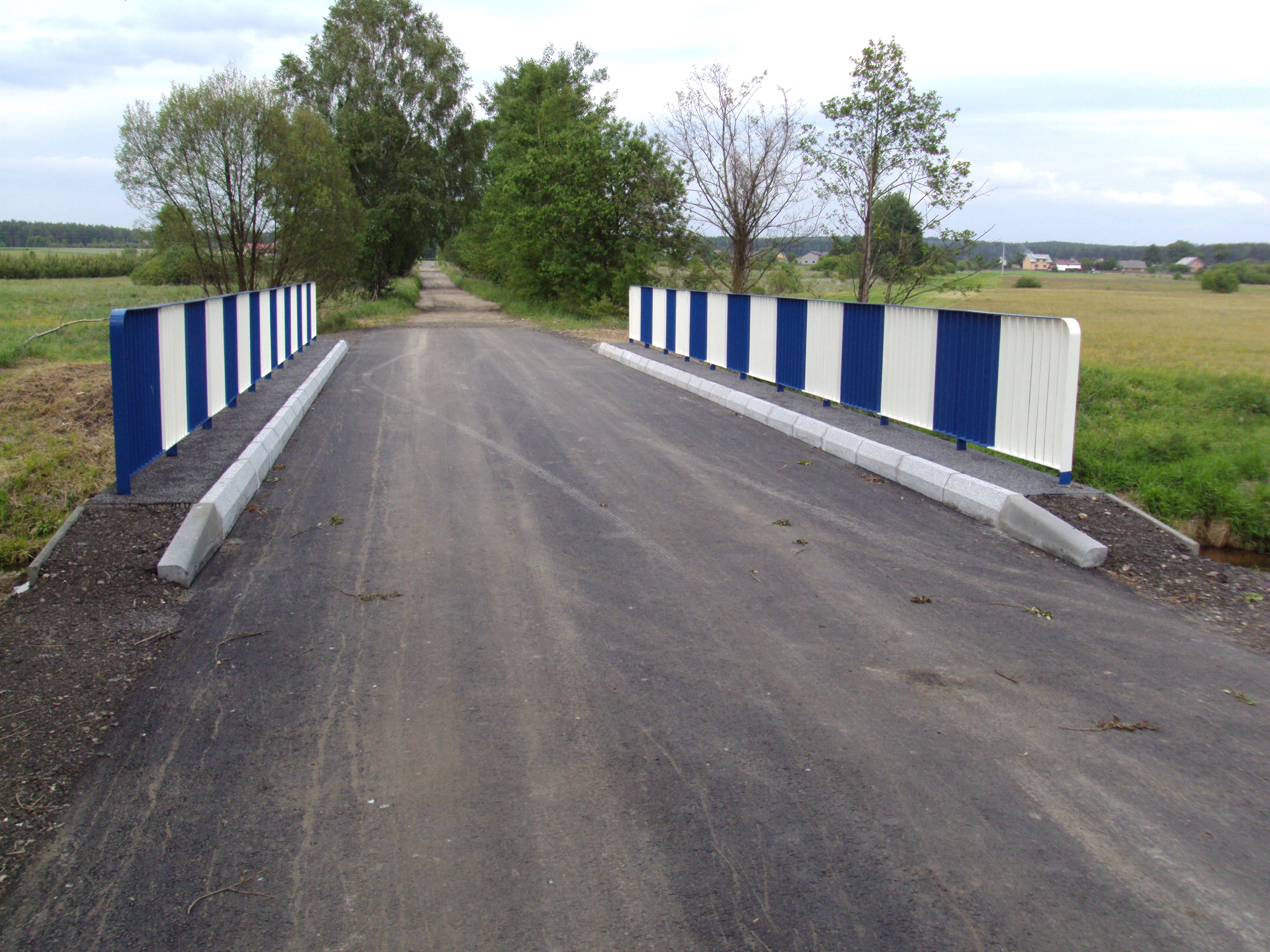 Kamińsko - most na cieku Liswarta